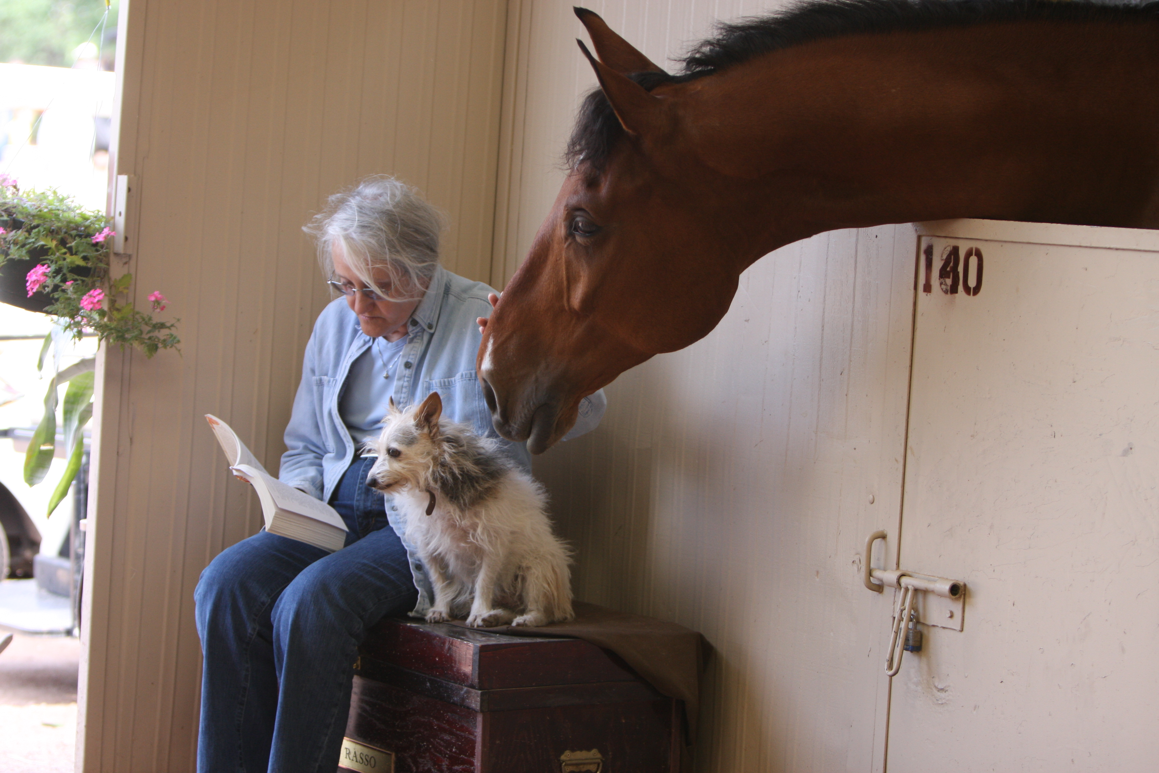 A horse stretching in to observe an old woman reading. A dog sits next to her.